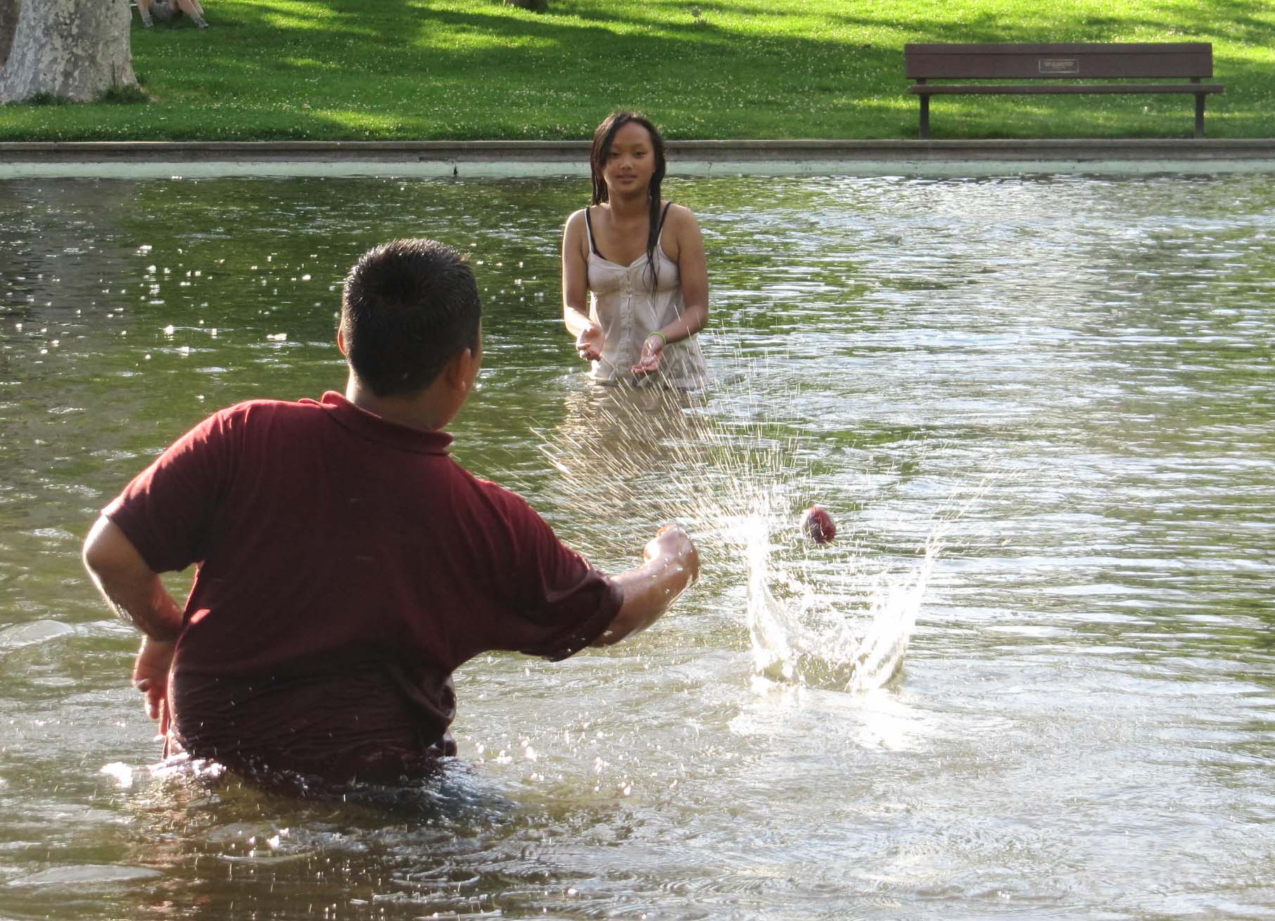 Siblings play with the WaterRipper